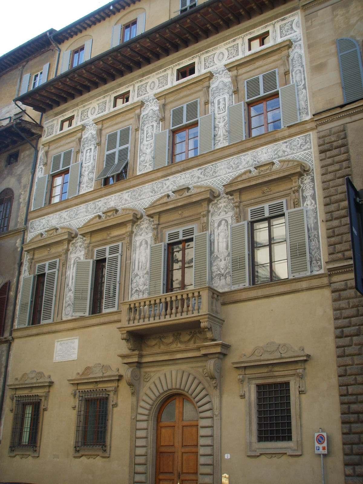 Graffito decoration on the facade of "Palazzo Nasi" palace (now a part of "Palazzo Torrigiani Del Nero" palace) in Piazza dei Mozzi square in Florence, Italy.